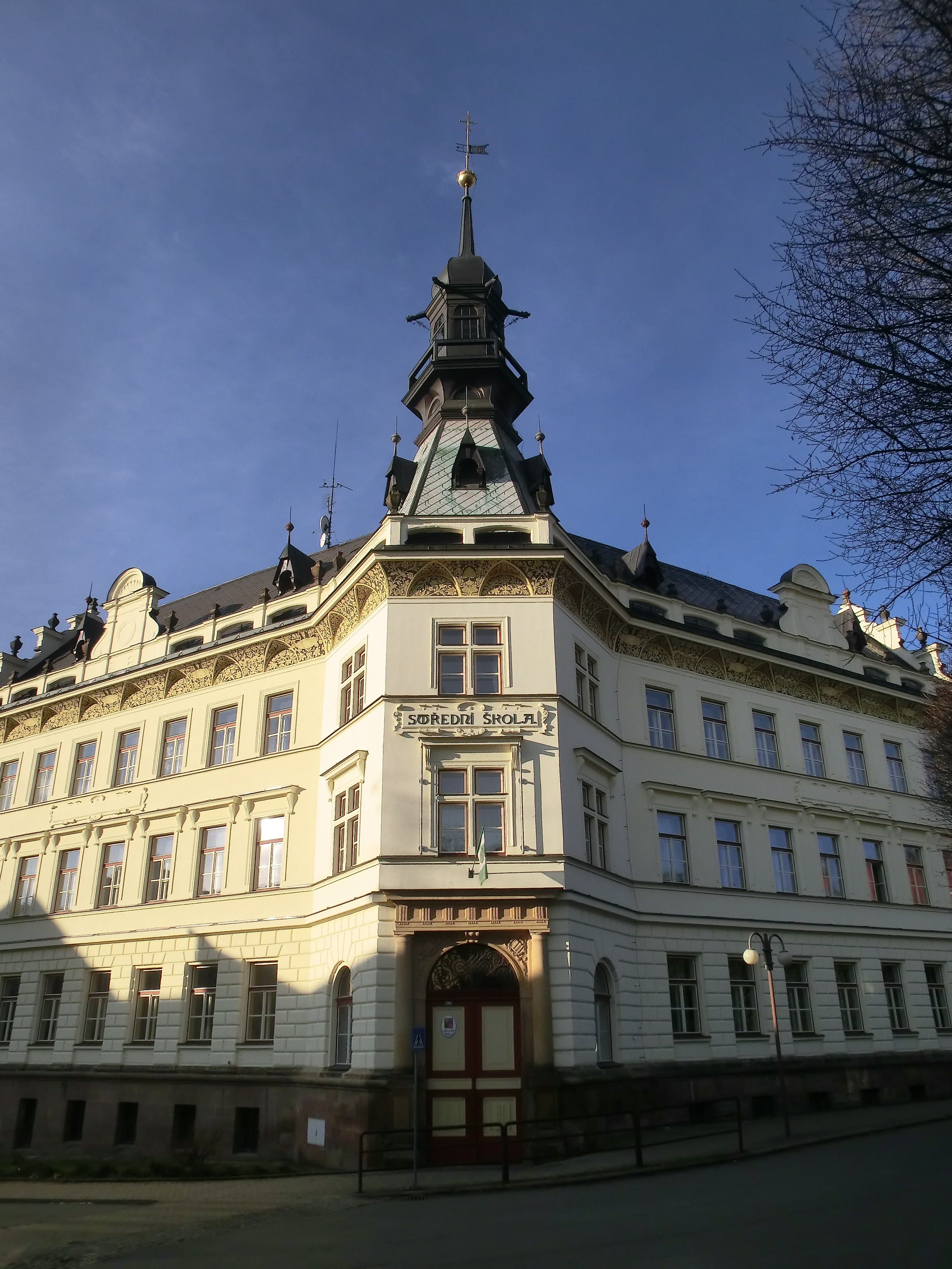 Renaissance Revival in Jilemnice - Ground school for girls, year 1899, author of design: Jan Vejrych.